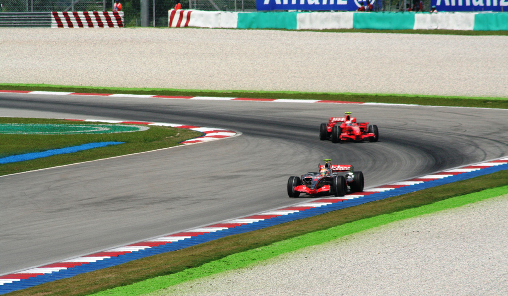 Lewis Hamilton (McLaren) and Kimi Räikkönen (Ferrari) at the 2007 Malaysian Grand Prix.